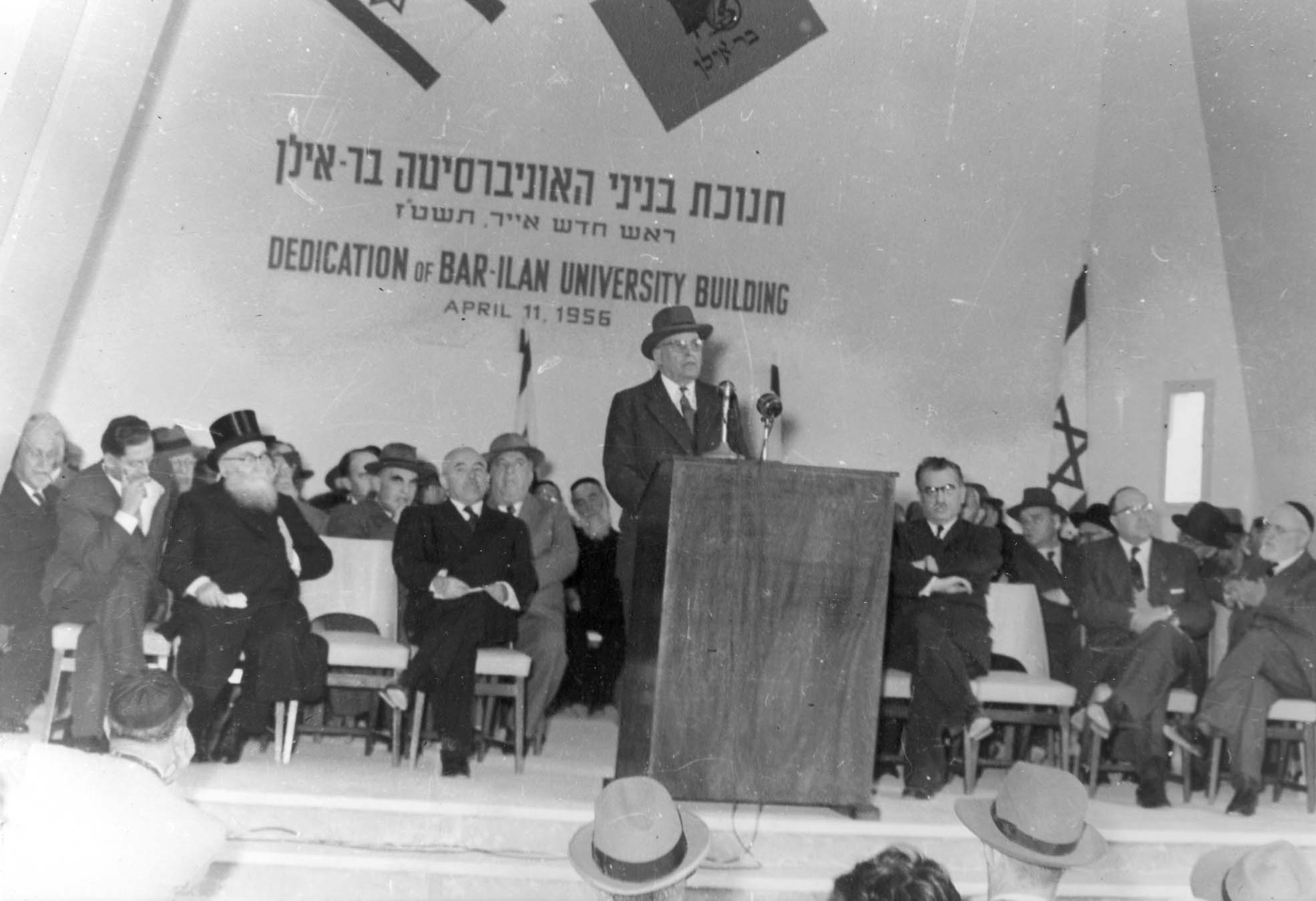 Dedication 1956